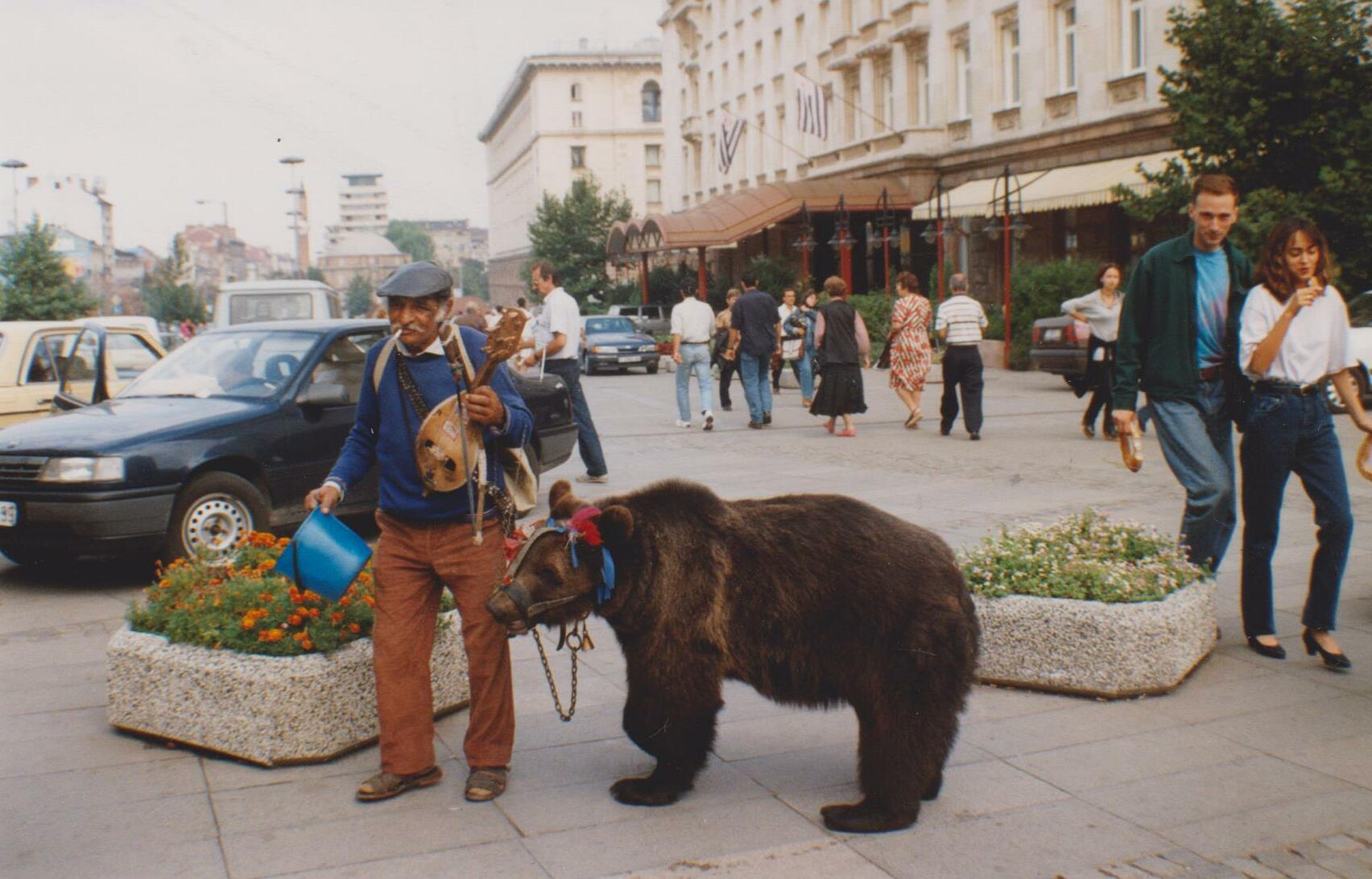 Dancing bear in Bukgaria (Sofiia)